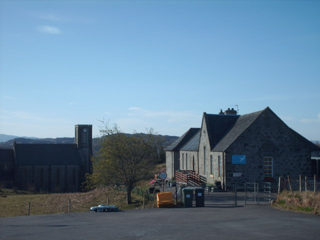 Primary School and St. Mary's Chapel